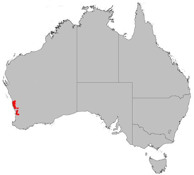 Distribution map of the Banksia telmatiaea, based on distribution information from the WA Governemnt Department of Conservation and Land Mmanagement